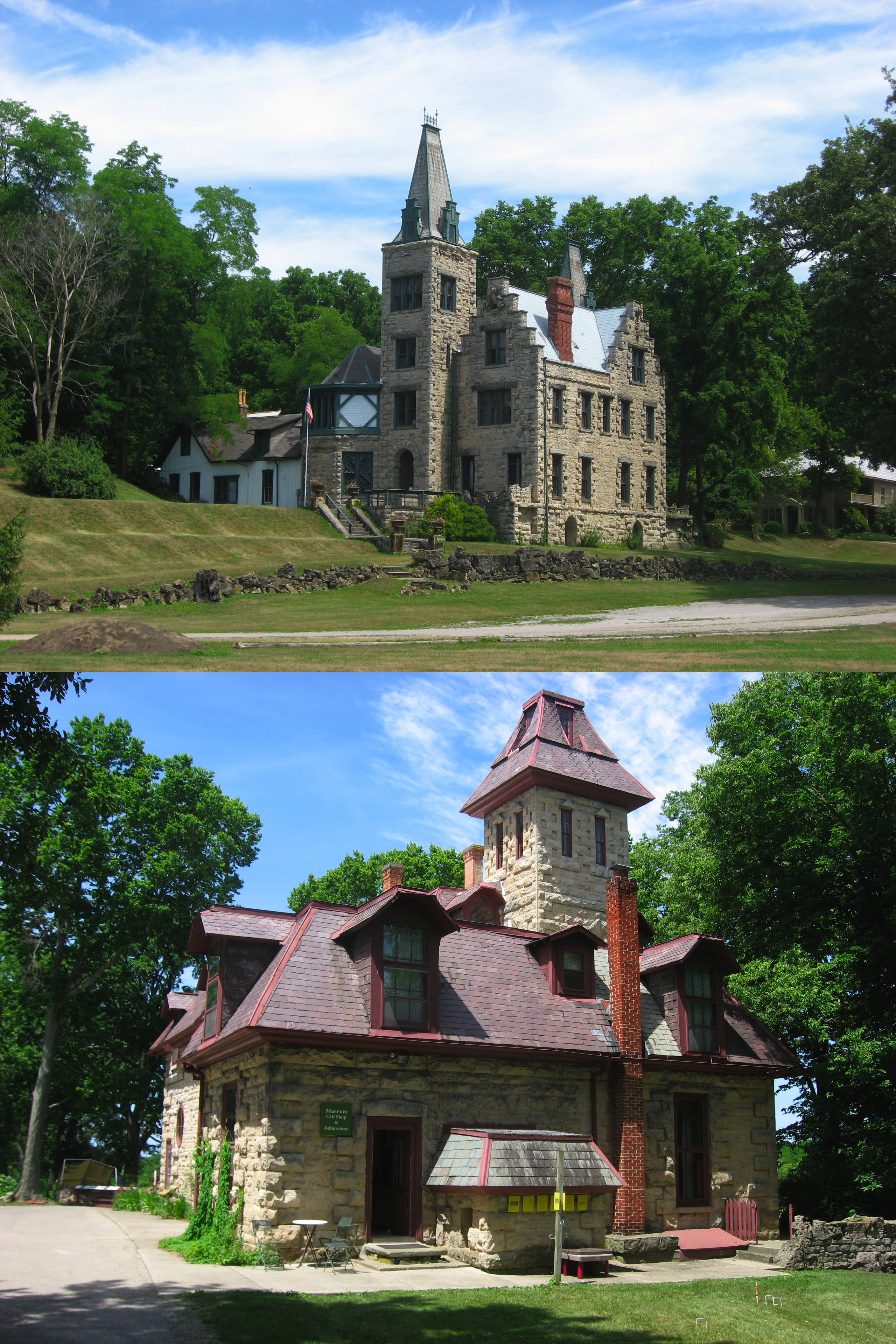 Montage of the Mac-O-Chee and Mac-A-Cheek Castles. Located approximately ¾ mile apart, the Castles are located along State Route 245 east of West Liberty in Monroe Township, Logan County, Ohio, United States. Built in 1864, they are operated as historic house museums, and under the name of "Abram S. Piatt House and Donn S. Piatt House", they are listed on the National Register of Historic Places.